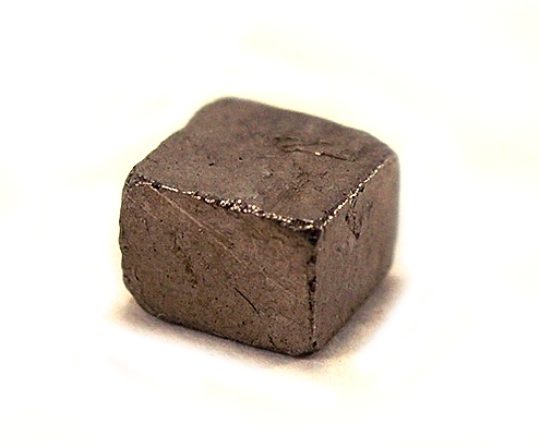 Zvyagintsevite Locality: Konder (Kondyor) alkaline-ultrabasic massif (Konder placiers; Konder mine), Aldan shield, Ayan-Maya district, Khabarovskiy Kray, Far-Eastern Region, Russia (Locality at ) Size: thumbnail, 0.5 x 0.5 x 0.2 cm Zvyagintsevite An extremely sharp crystal of the rare platinum group mineral Zvyagintsevite (platinum, palladium, gold-containing!). It is complete all around. This specimen was formerly in the isometric thumbnails competition case of my mentor, Carlton Davis of Columbus , Ohio.